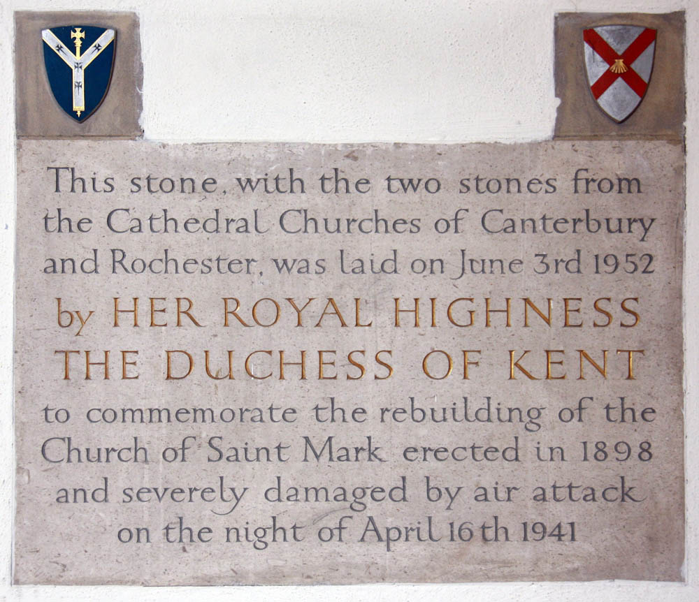 St Mark, Westmoreland Road, Bromley - Foundation stone